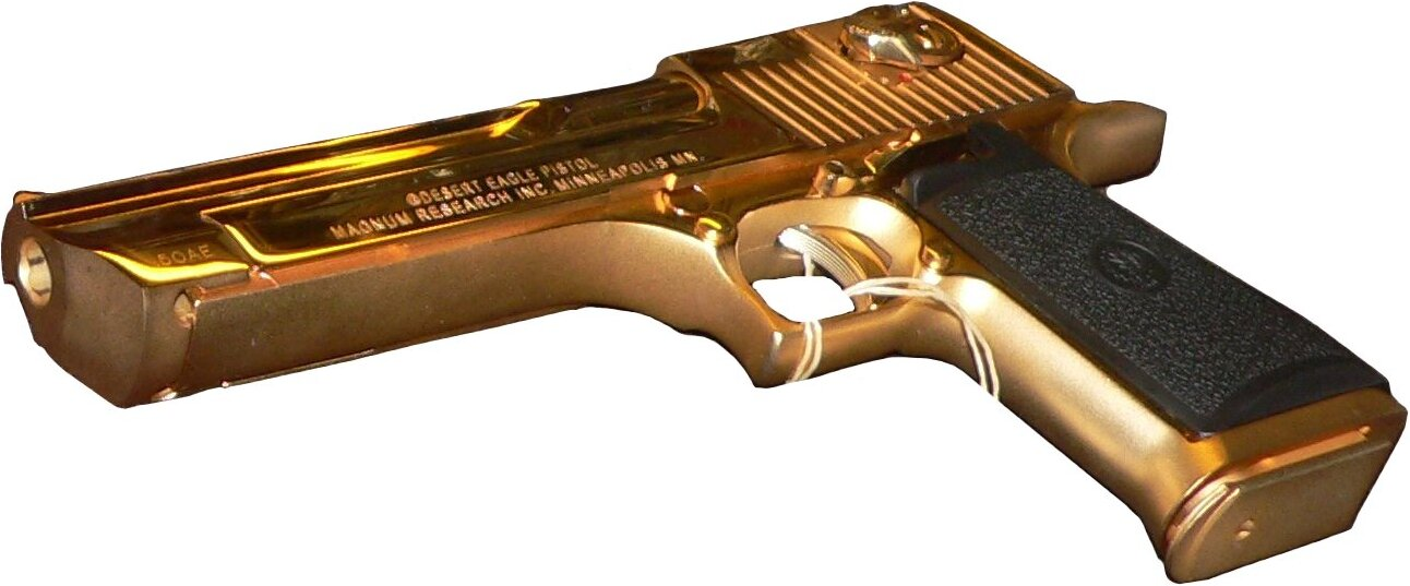 Desert-Eagle-dore